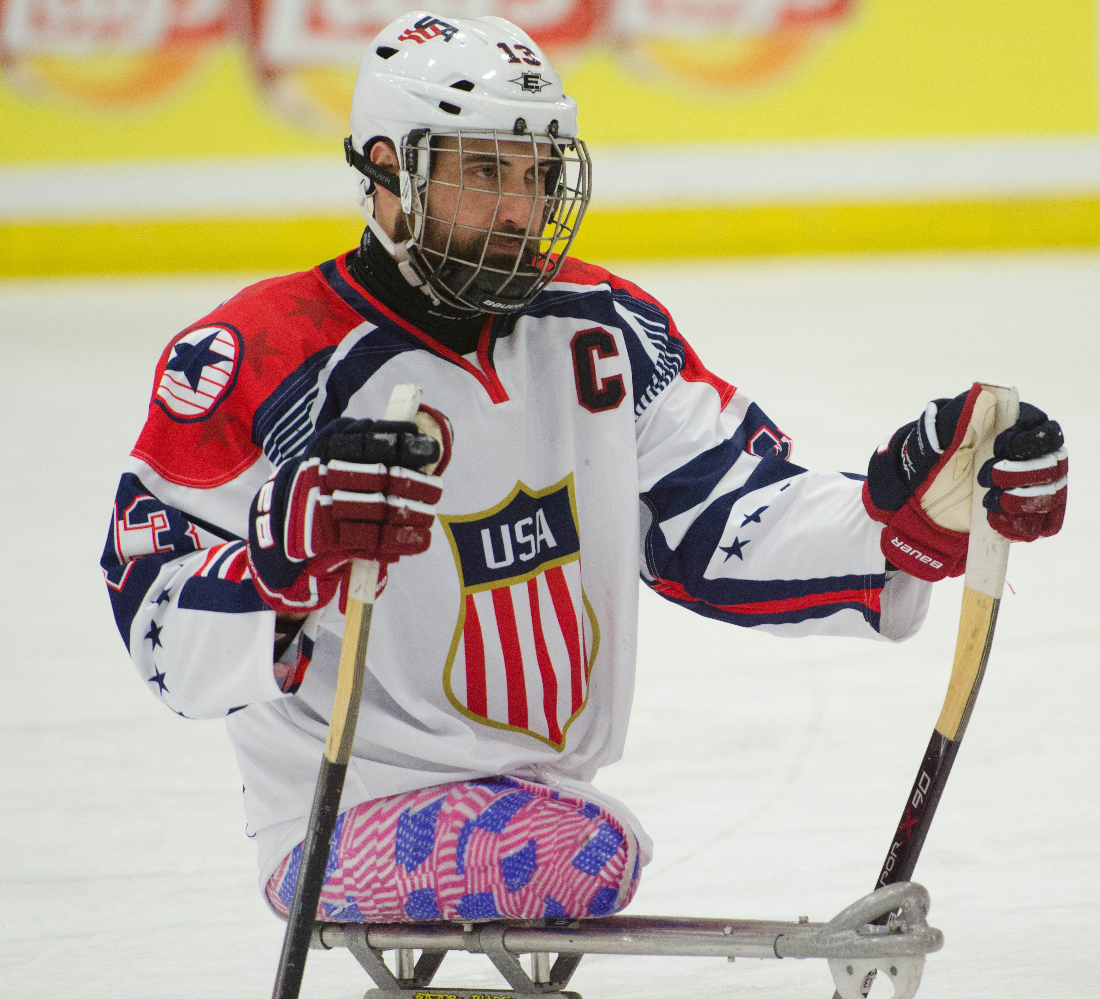 Josh Sweeney, 2015